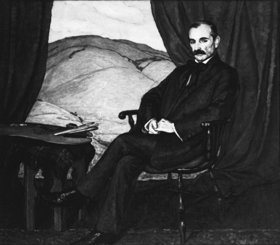 Clark Hobart, portrait of Gottardo Piazzoni, 1919